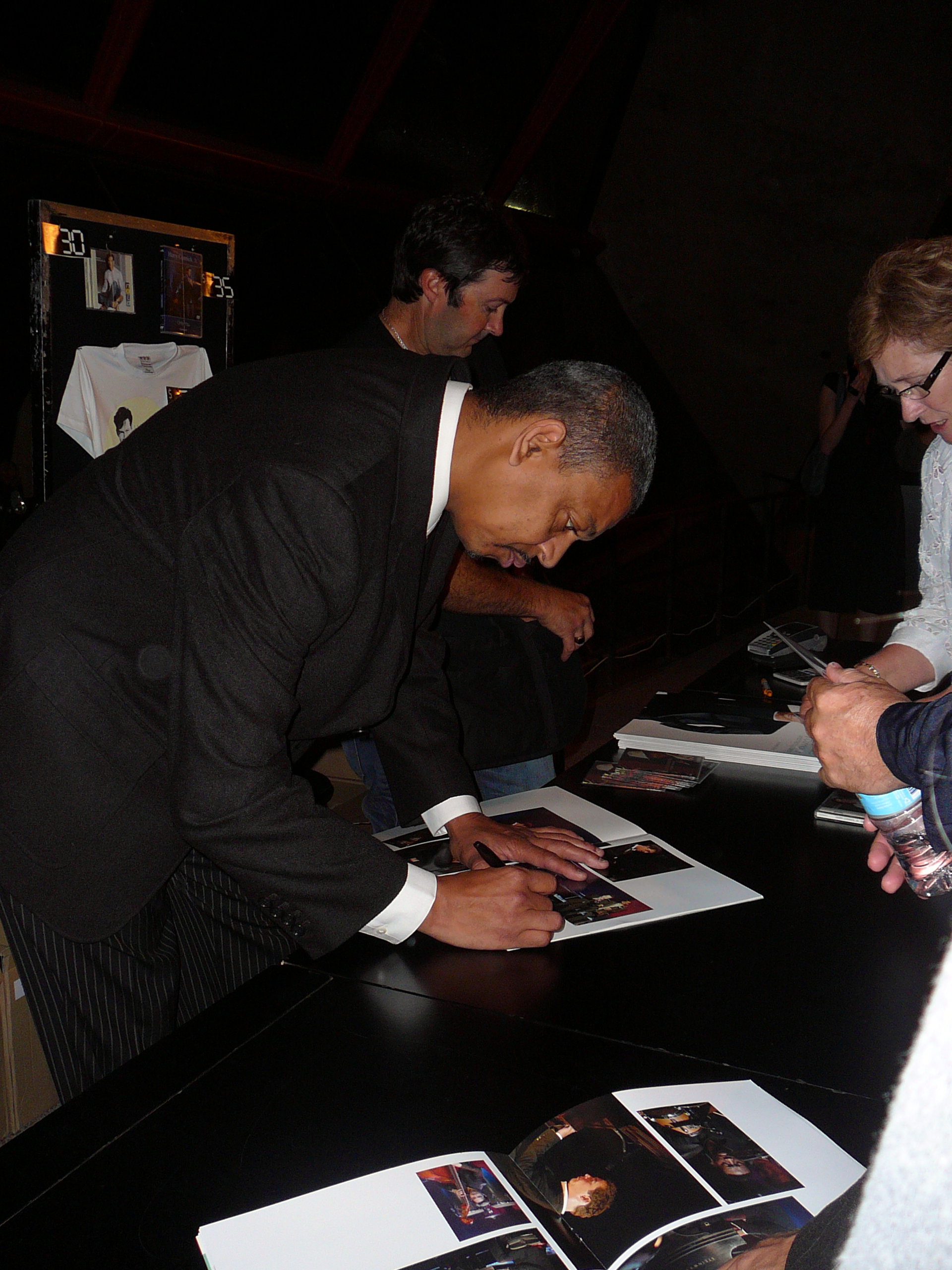 Lucien Barbarin signing autographs at the Sydney Opera House after appearing with Harry Connick, Jr.